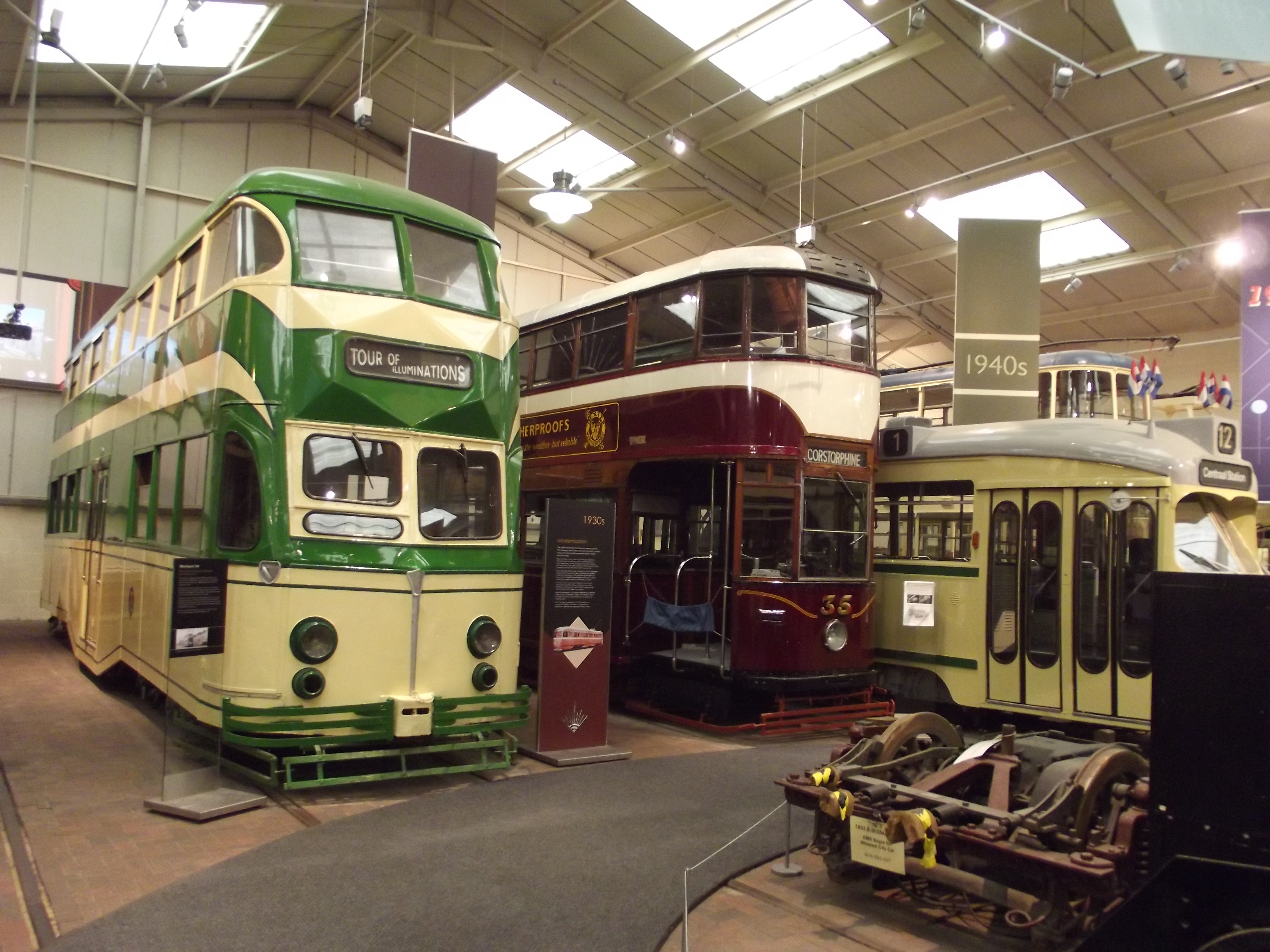 At the National Tramway Museum in Crich. The Museum started in the 1950s / 60s when most of the old tram networks in the cities of the UK were being closed down. The Tramway Museum Society was formed in the late 1940s when the decline began and they started to purchase the trams, track etc. The Crich site came to the attention of the society in the late 1950s. They later purchased the site. The Great Exhibition Hall - Century of Trams Exhibition Blackpool 249 from 1934. Blackpool Corporation Tramways Blackpool Balloon car, formerly number 712. On display in the Exhibition Hall, in 1930s livery but 1980s condition. Edinburgh 35 from 1948. City and Royal Burgh of Edinburgh This tram has operated in Edinburgh, Blackpool and Glasgow Garden Festival before being displayed at Crich. This tramcar was transferred to TMS ownership in June 2008. Received a cosmetic overhaul in 2013 and is on display in the Exhibition Hall. Hague 1147 from 1957. Den Haag A European styled example of a USA design classic PCC (Presidents Conference Committee) car built under licence by La Brugeoise, Belgium in 1957. It is single ended, and its control gear was copied by the Tatra T3 type Trams. On display in the Exhibition Hall.